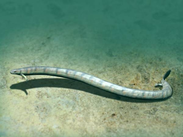 Life reconstruction of Brachydectes newberryi